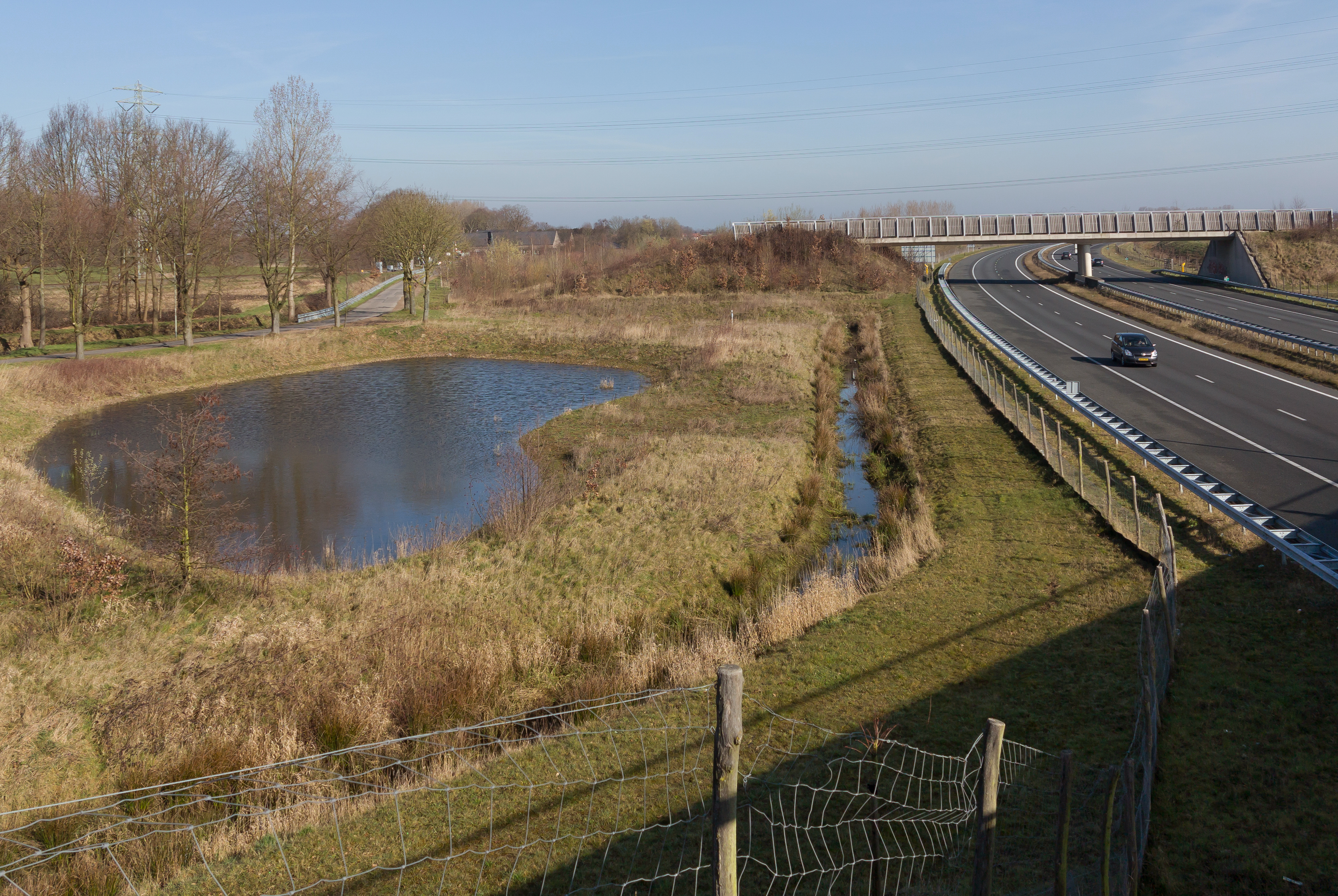 Roermond, point where Rijksweg Zuid cross the highway